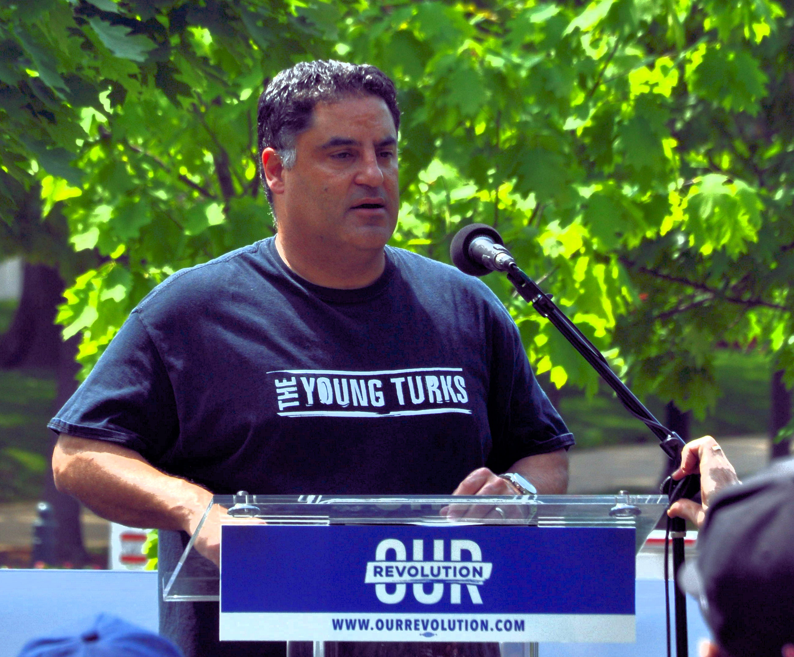 Climate March 0163 Our Rev Cenk Uygur